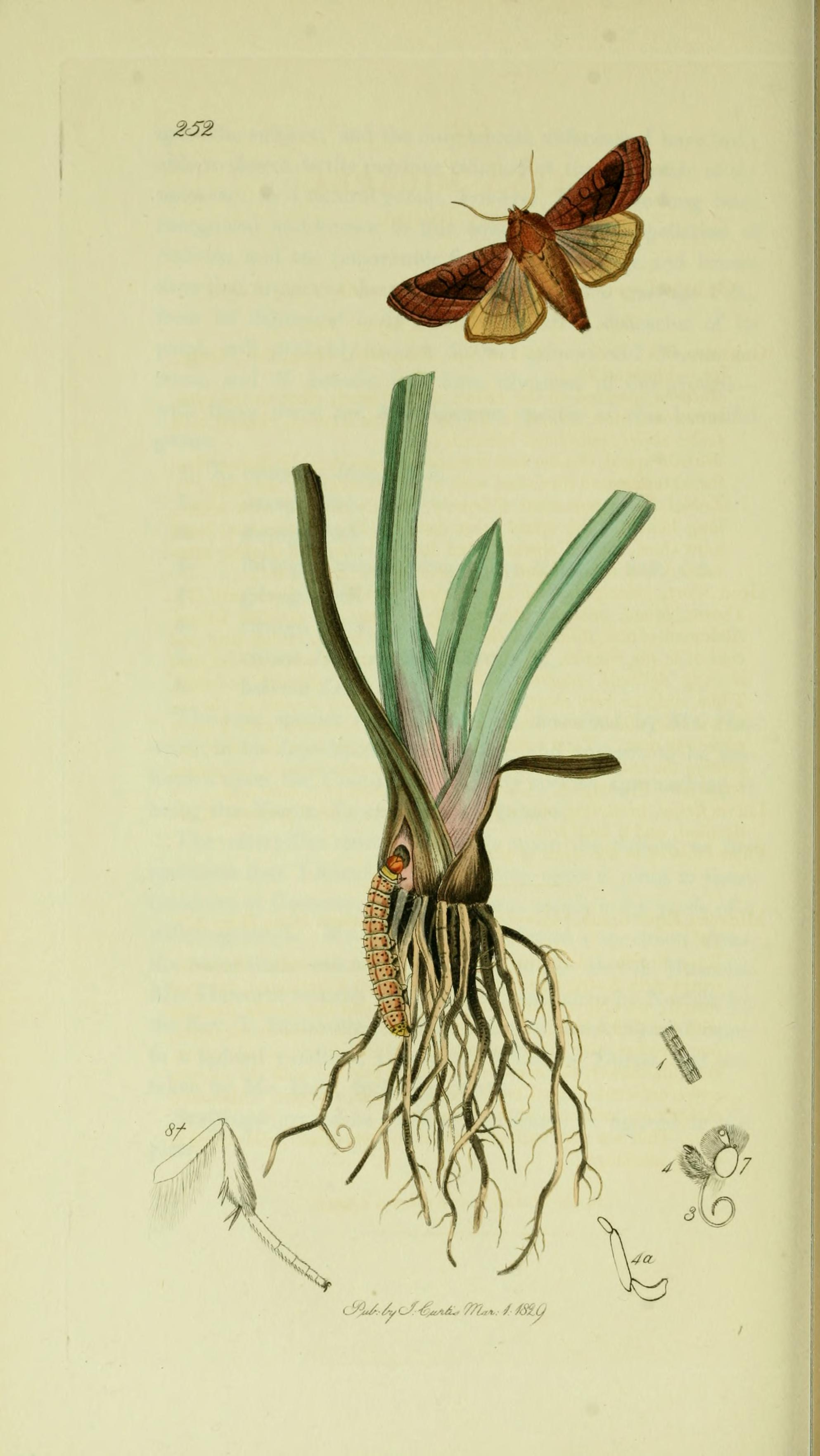 An illustration from British Entomology by John Curtis. Gortyna micacea or Hydraecia micacea (Rosy Rustic, Rosy Ear).